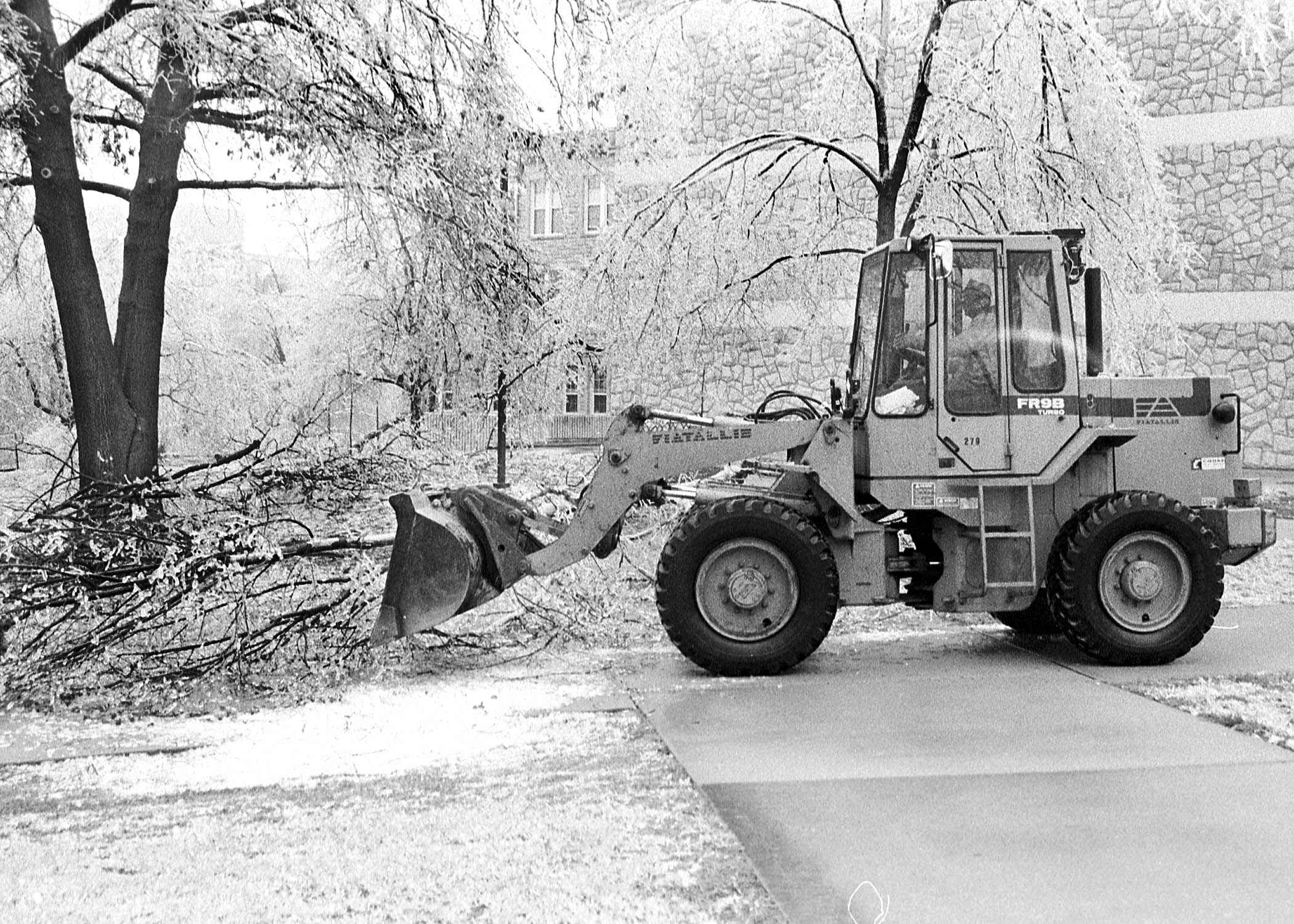 Warrensburg, MO, January 31, 2002 -- Groundskeepers at Central Missouri State University use heavy equipment to clear access to the campus in the aftermath of a major winter ice storm. Photo by David Stonner/ FEMA News Photo